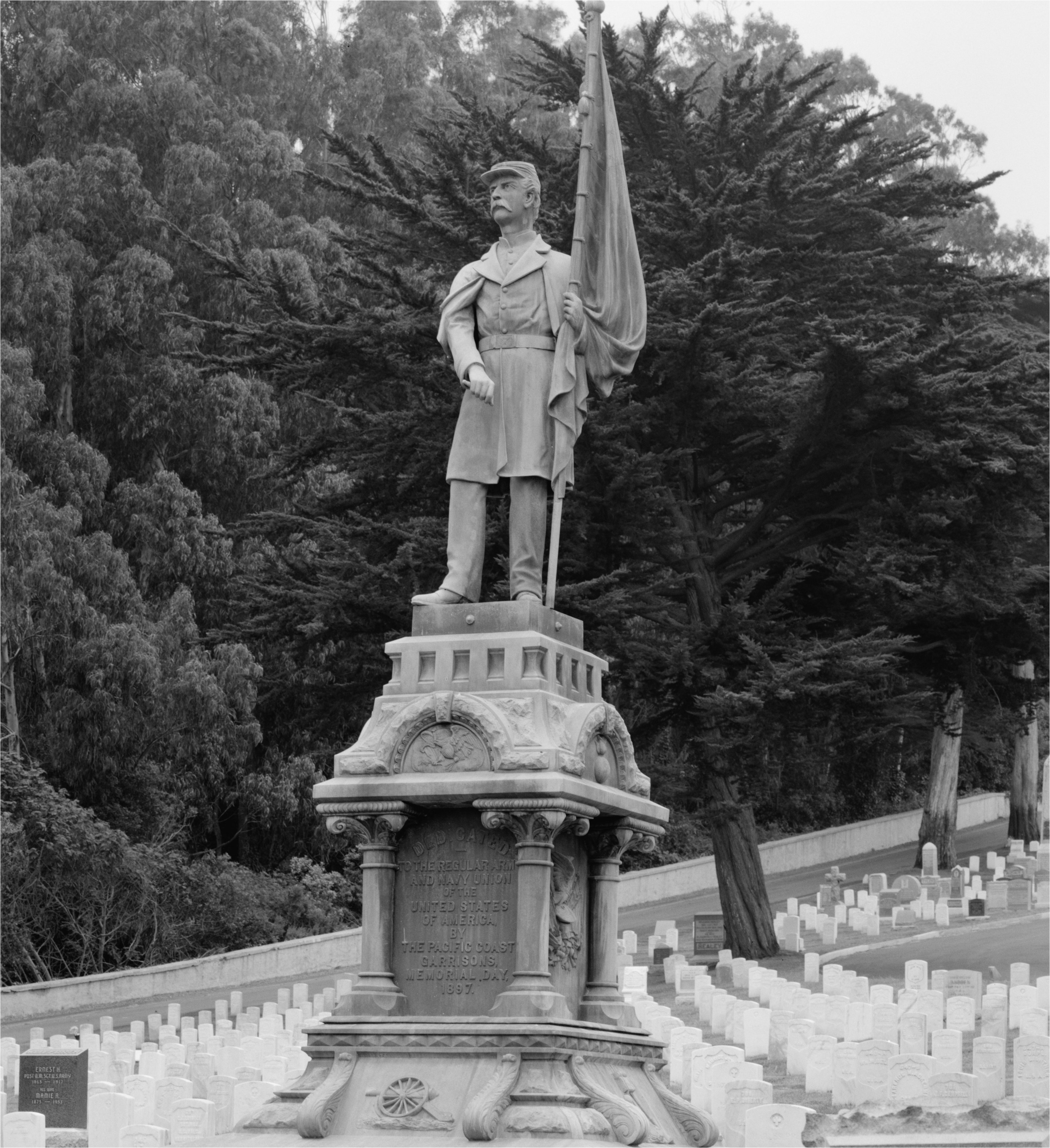 Pacific Coast SF monument crop